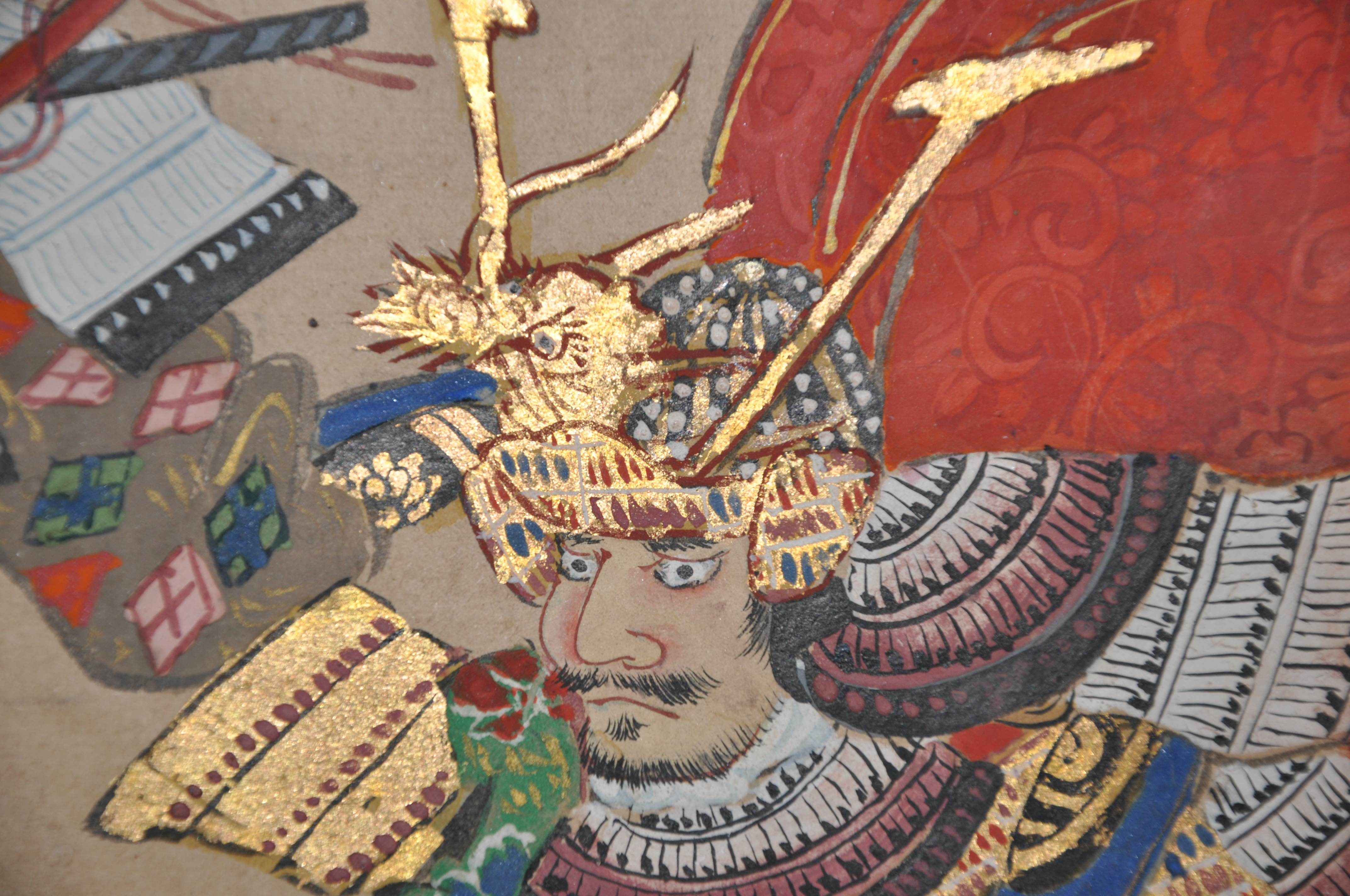 Detail from Battle of Hasedo Standing Screen